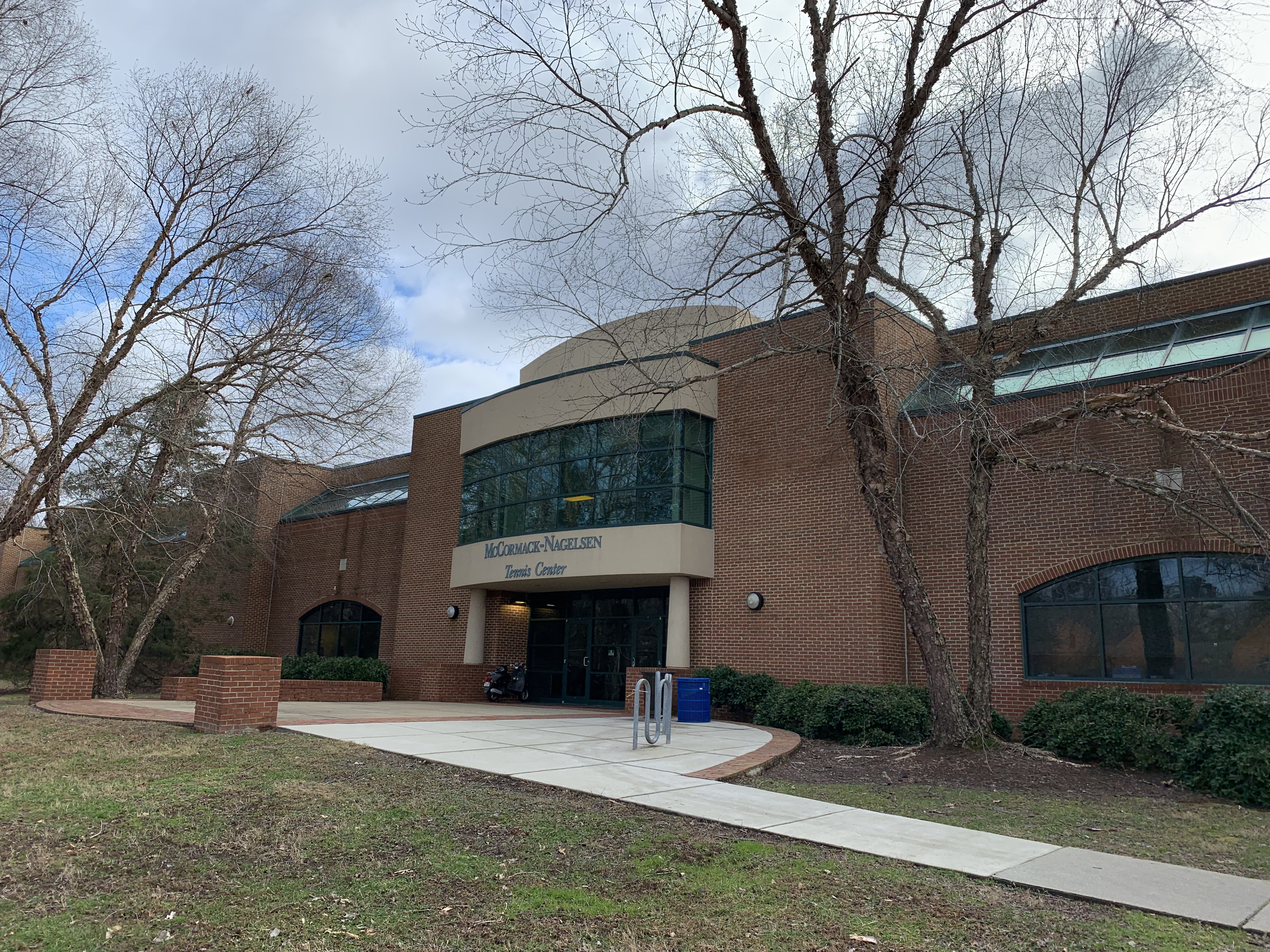 Front entrance to the McCormack-Nagelsen Tennis Center in Williamsburg, Virginia, January 2019